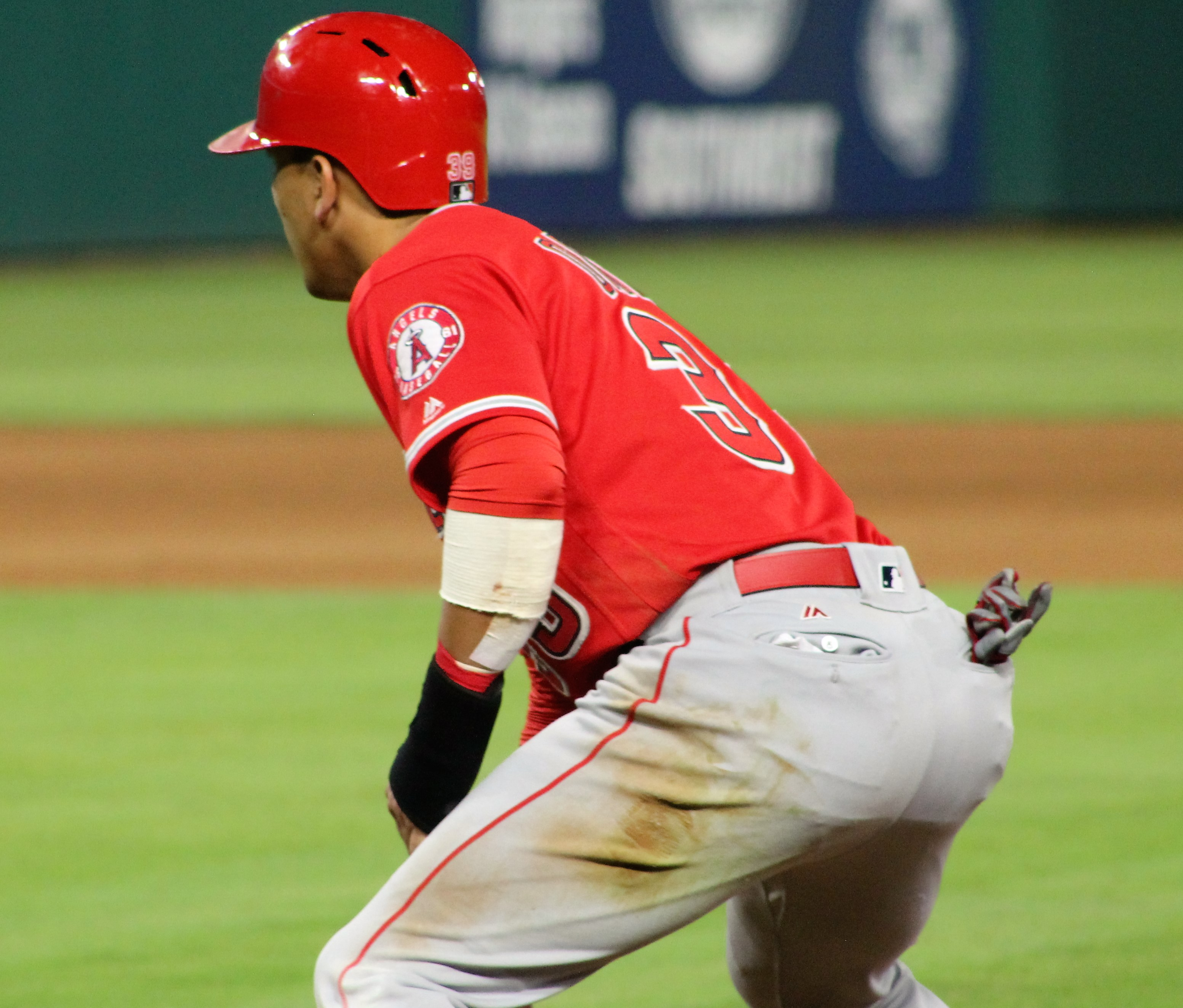 Professional baseball player Rafael Ortega on the bases during a game at Globe Life Park in May 2016.